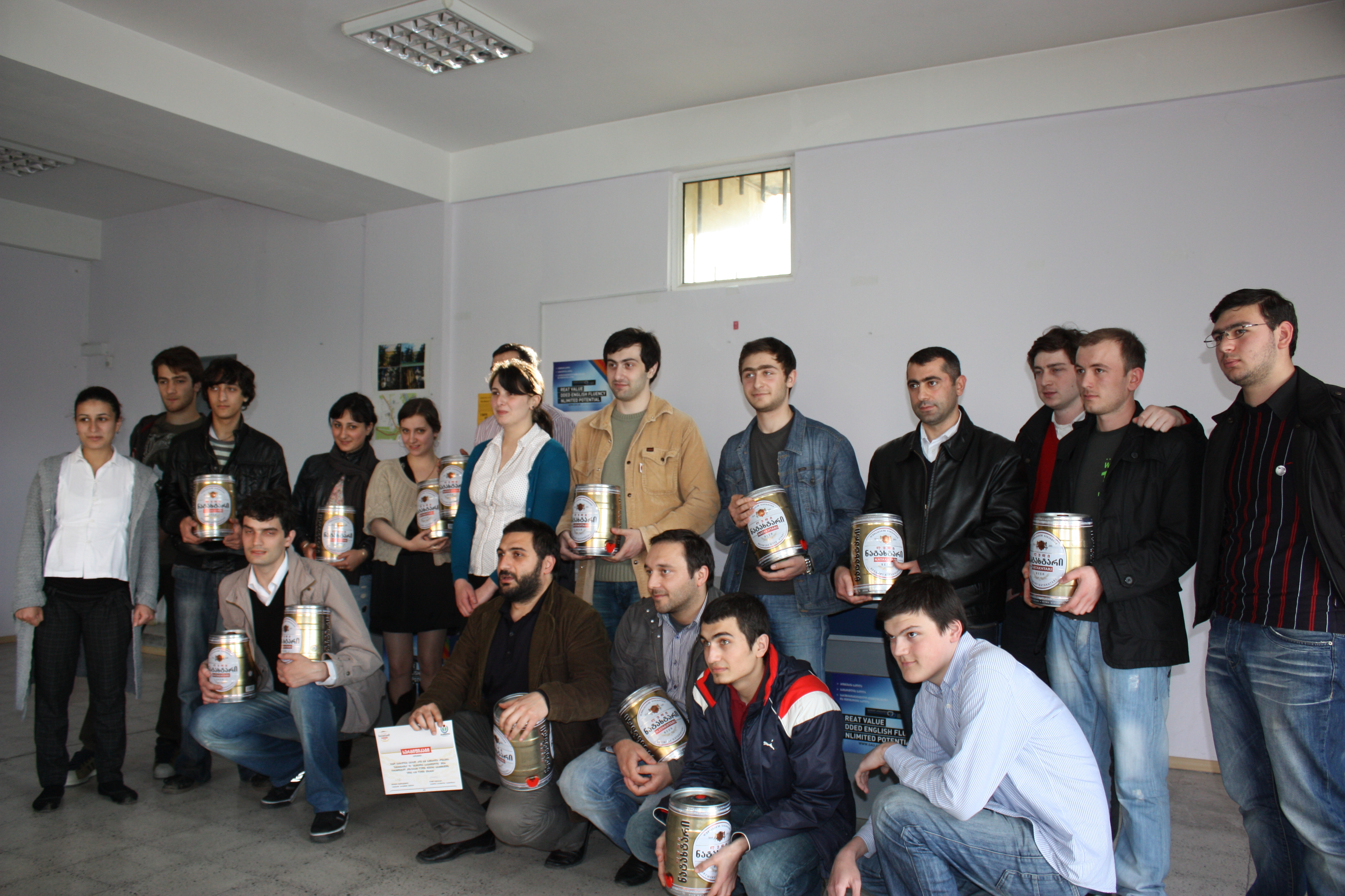 The Georgian Wikipedians with beer, donated by Natakhtari Brewery.